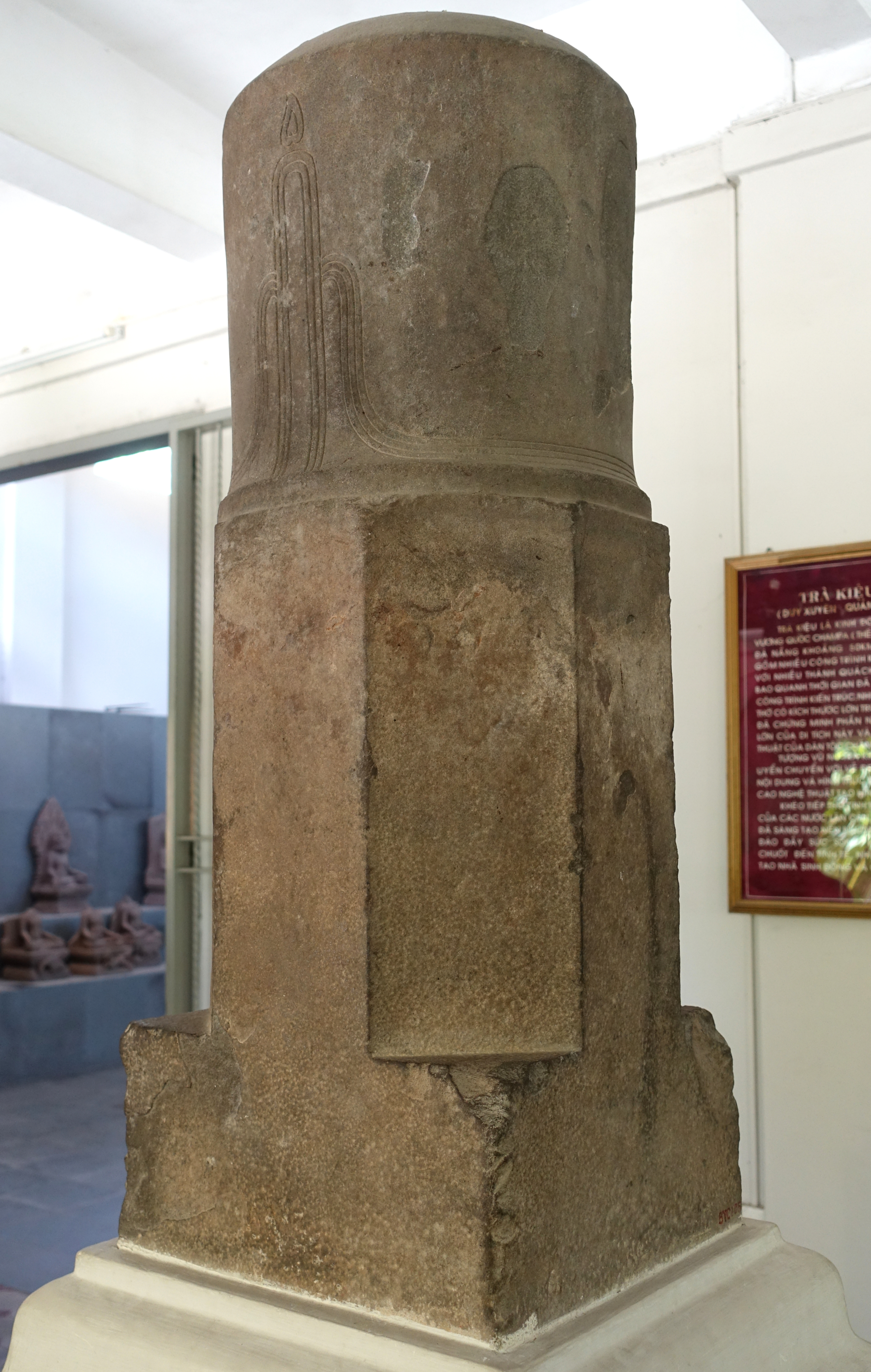 Cham sculpture at the Museum of Cham Sculpture, Da Nang, Vietnam. This artwork is in the public domain because the artist died more than 70 years ago.